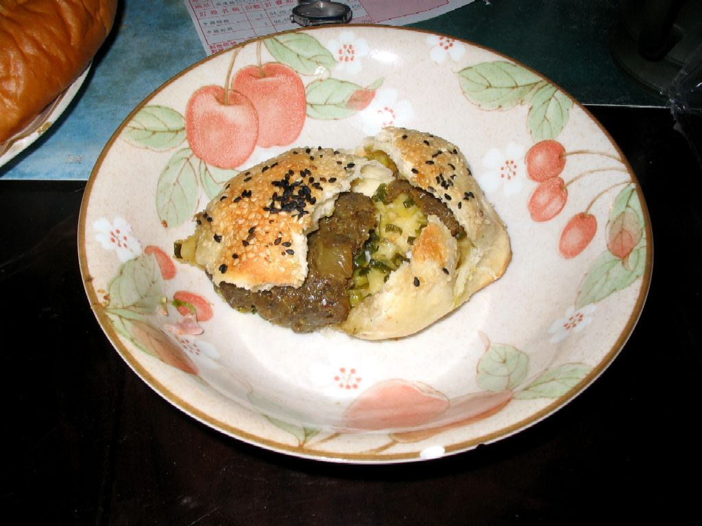 A partitioned hujiaobing